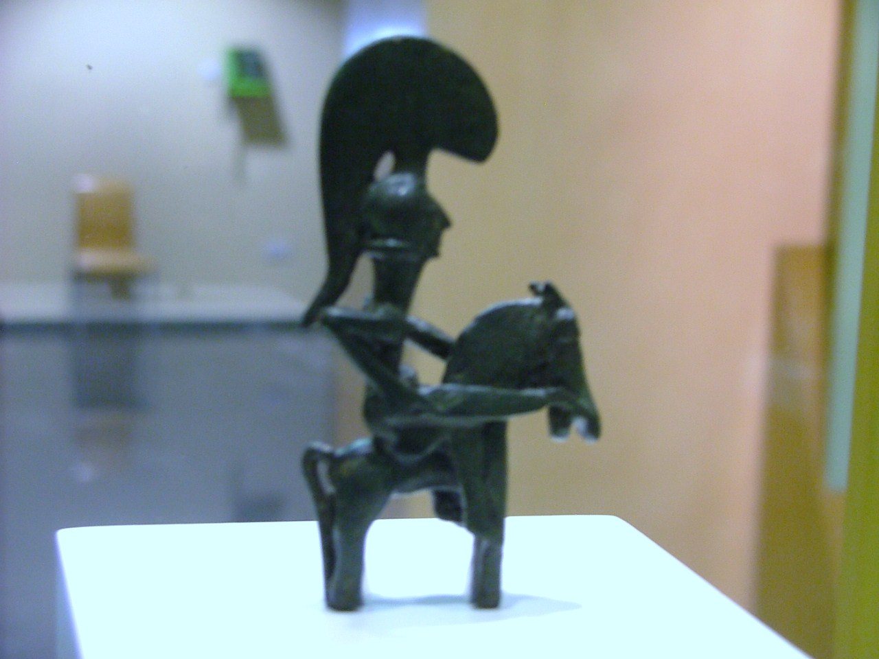 The so-called Warrior of Moixent. Iberian bronze figurine dated circa 400 BC. Also called Horse of La Bastida. Found in Partida de la Bastida de les Alcuses, in Moixent (Province of Valencia, Spain).